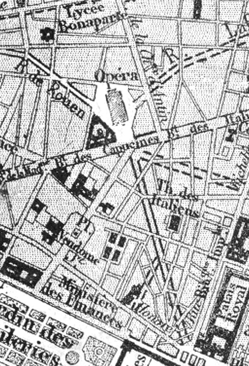 Detail of an 1869 map of Paris showing the projected route of the Avenue de l'Opéra and Rue du Quatre-Septembre as well as other proposed streets